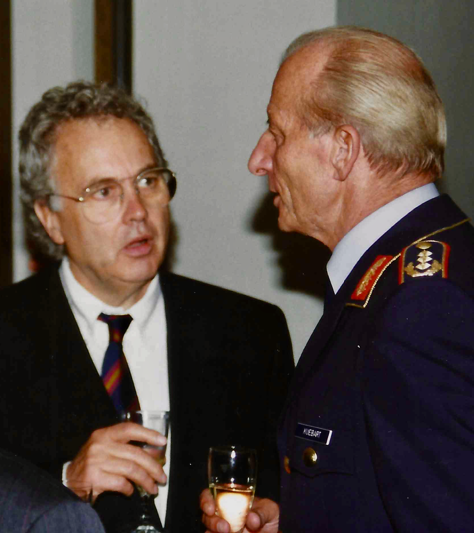 Mayor of Delmenhorst Jürgen Thölke talking to Generalleutnant Hans-Jörg Kuebart